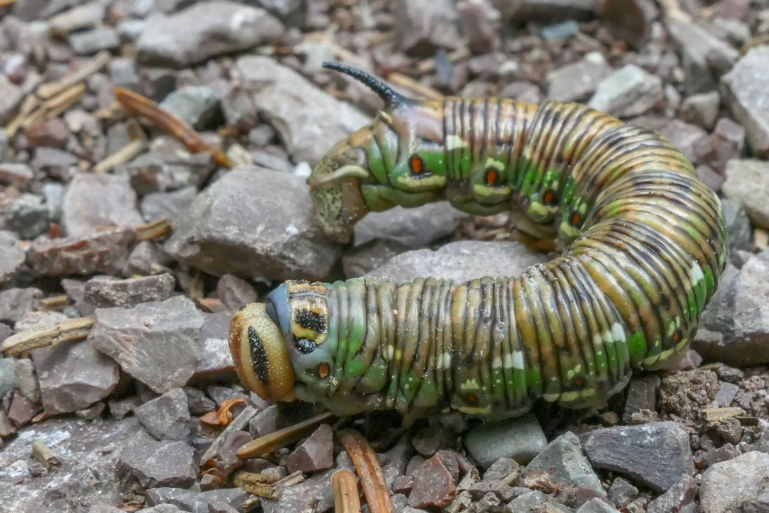 Caterpillar of Sphinx pinastri